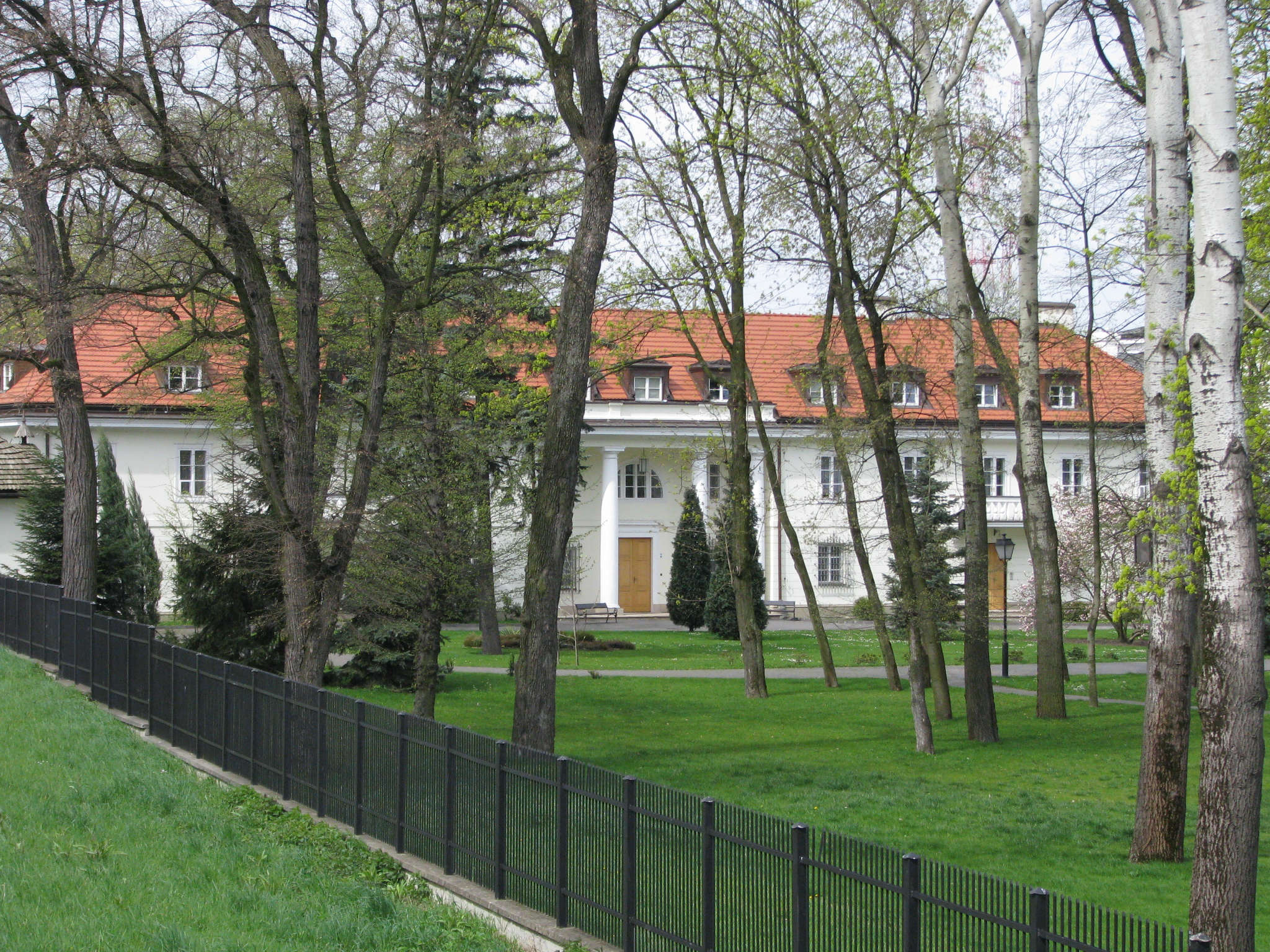 Mostowski Palace, Mehoffera Street, Tarchomin, Warsaw